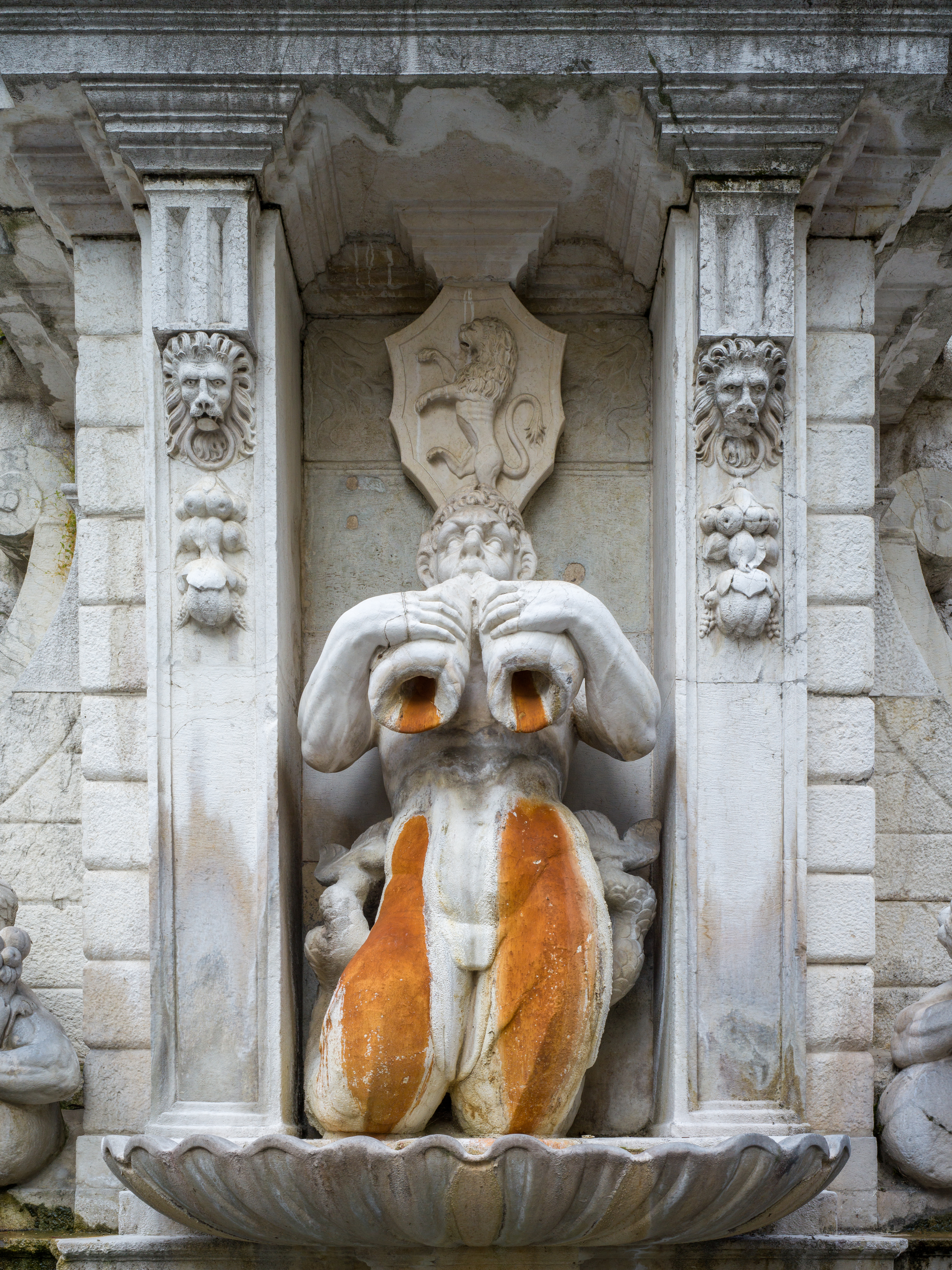 Statue of Triton on the Fontana della Pallata fountain under the "Torre della Pallata" tower in Brescia.